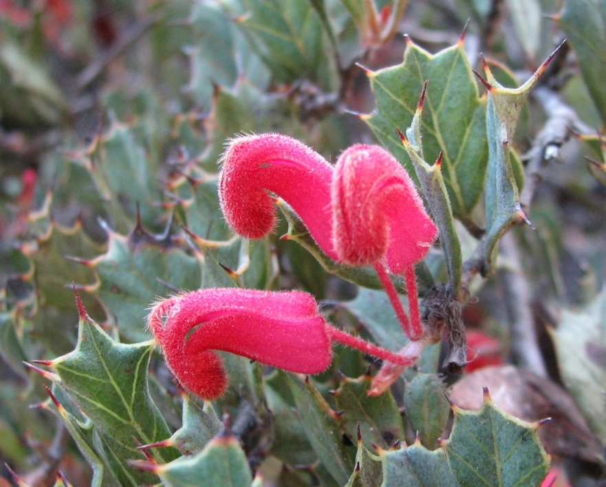 Grevillea pilosa subsp. redacta (cultivated, labelled) Maranoa Gardens, Balwyn, Victoria, Australia